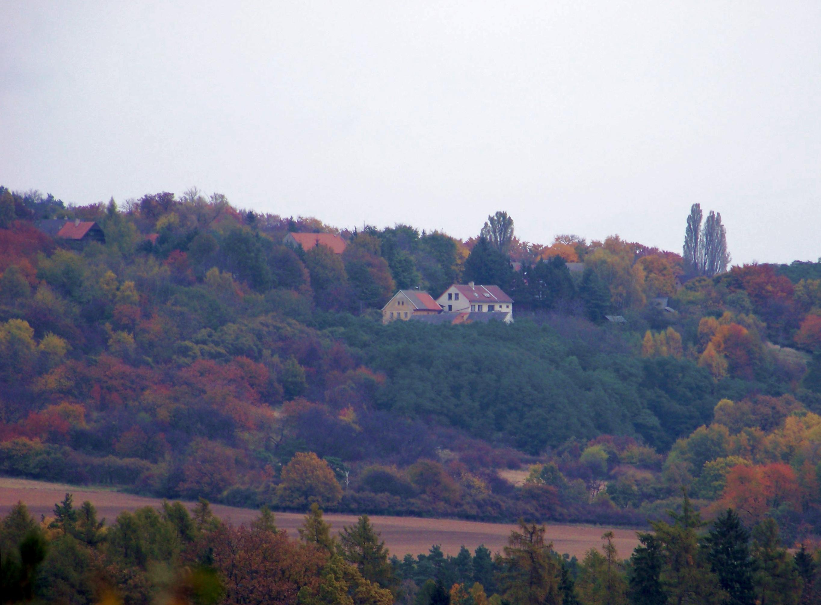 Mšeno, Mělník District, Central Bohemian Region, the Czech Republic. Landscape protected area of Kokořín. A view of Libovice from Vyhlídky.